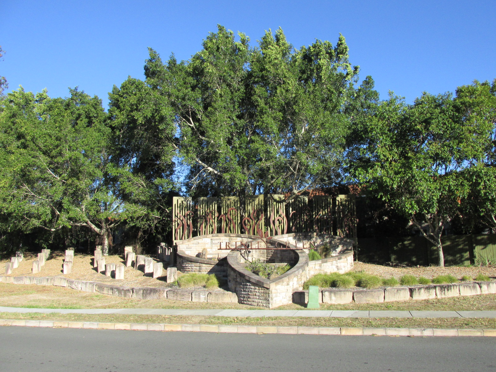 Entrance to the Trinity Green housing estate in Drewvale, on the southern boundary of City of Brisbane (with Browns Plains).